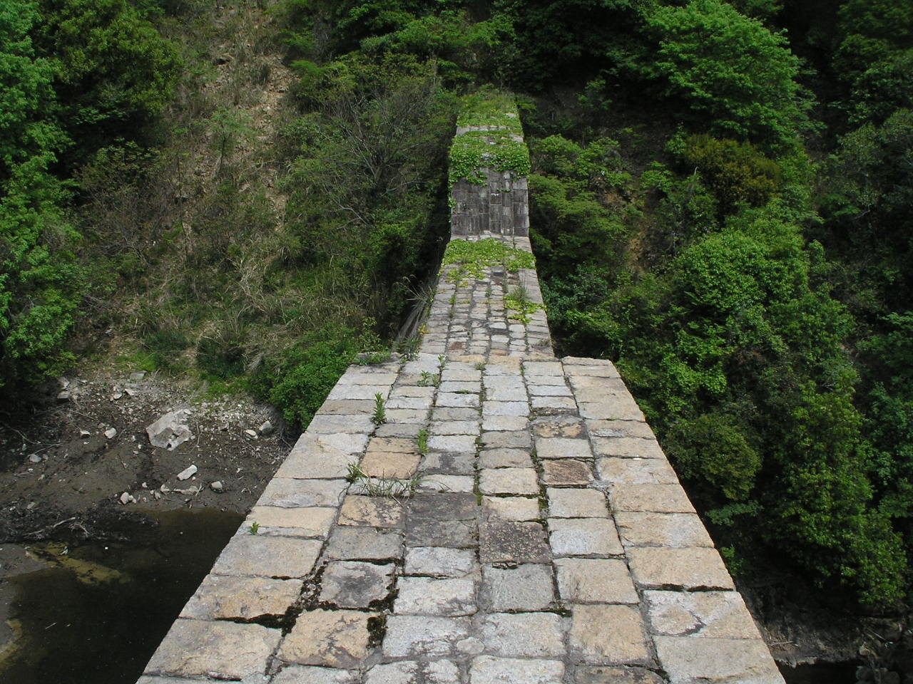 Iyagatani-Kita-ku,Kobe